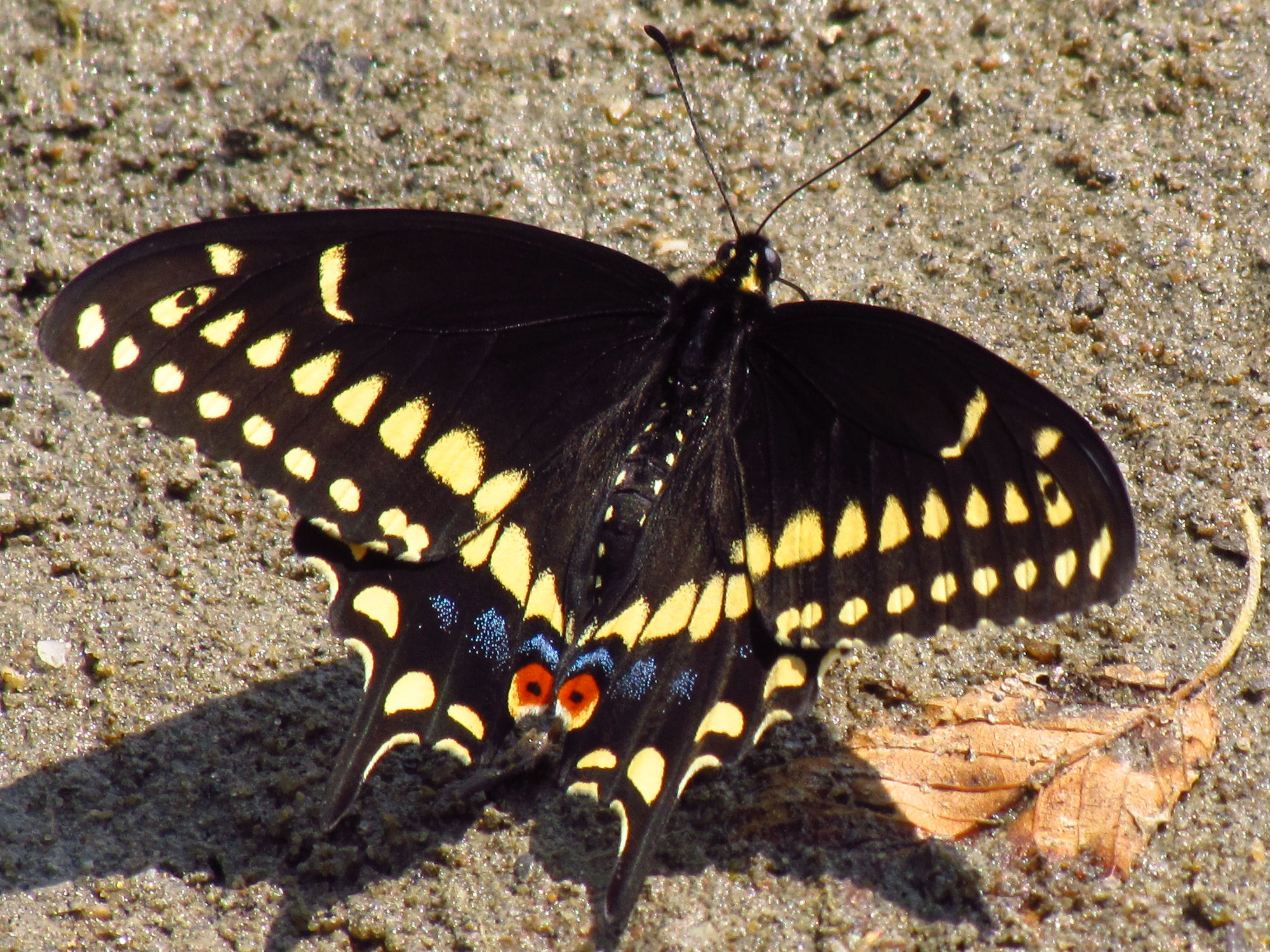 Black Swallowtail (Papilio polyxenes), male, Ottawa, Ontario, Canada